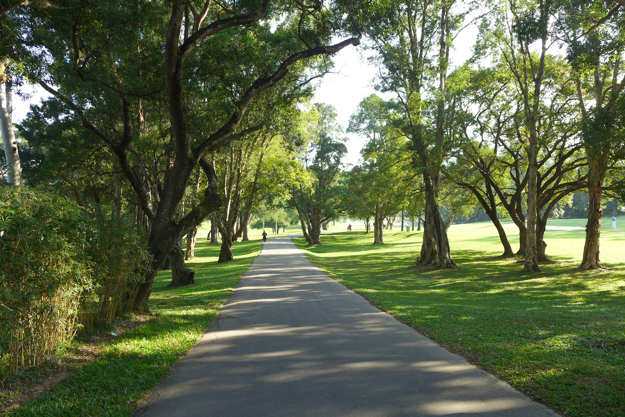 Hong Kong Golf Club Old trees